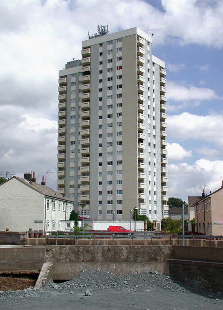 Highcourt, Orchard Park, Hull, East Riding of Yorkshire, England.Looking east-northeast towards the block of flats at 13 to 122 Highcourt from the northeast corner of Faircourt. At the bottom of the picture is a pedestrian subway under Hall Road which has just been blocked with rubble by council workers.